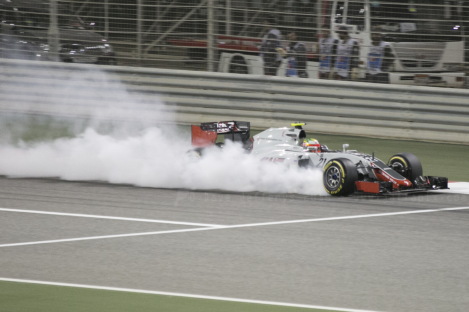 Esteban Gutierrez at the 2016 Bahrain Grand Prix